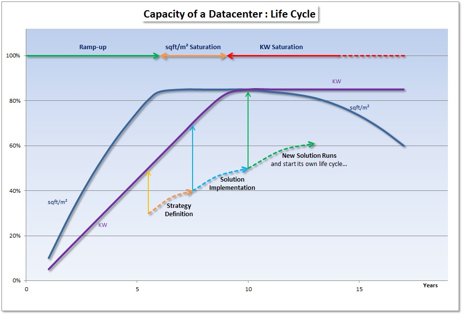 Strategy helper for managing capacity of Datacenter